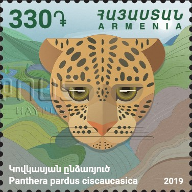 Flora and Fauna. Flora and Fauna of Armenia The postage stamp with the nominal value of 330 AMD depicts Panthera pardus ciscaucasica (Caucasian Leopard) as the Government of the Republic of Armenia has declared 2019 the Year of Caucasian Leopard. The animals are depicted in their typical environment performed in an artistic style.